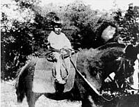 This is a photo of Ernesto Che Guevara at three years old riding a burro. It was taken in Argentina in 1932 by his father, Ernesto Guevara Lynch. English translation of the above release: "All the material on this site can be taken with total freedom; please do not forget to cite the sources of the same." The source of this photo is: .